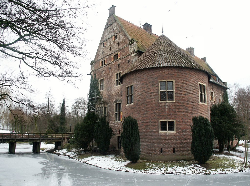 Raesfeld Castle, part of the main building